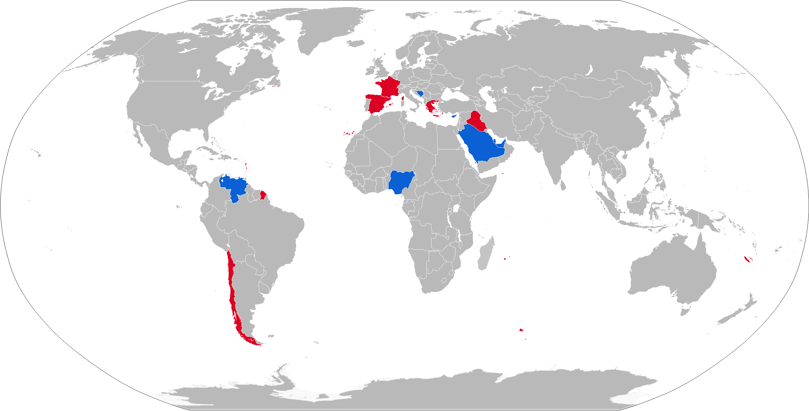 Map of AMX-30 operators in blue with former operators in red